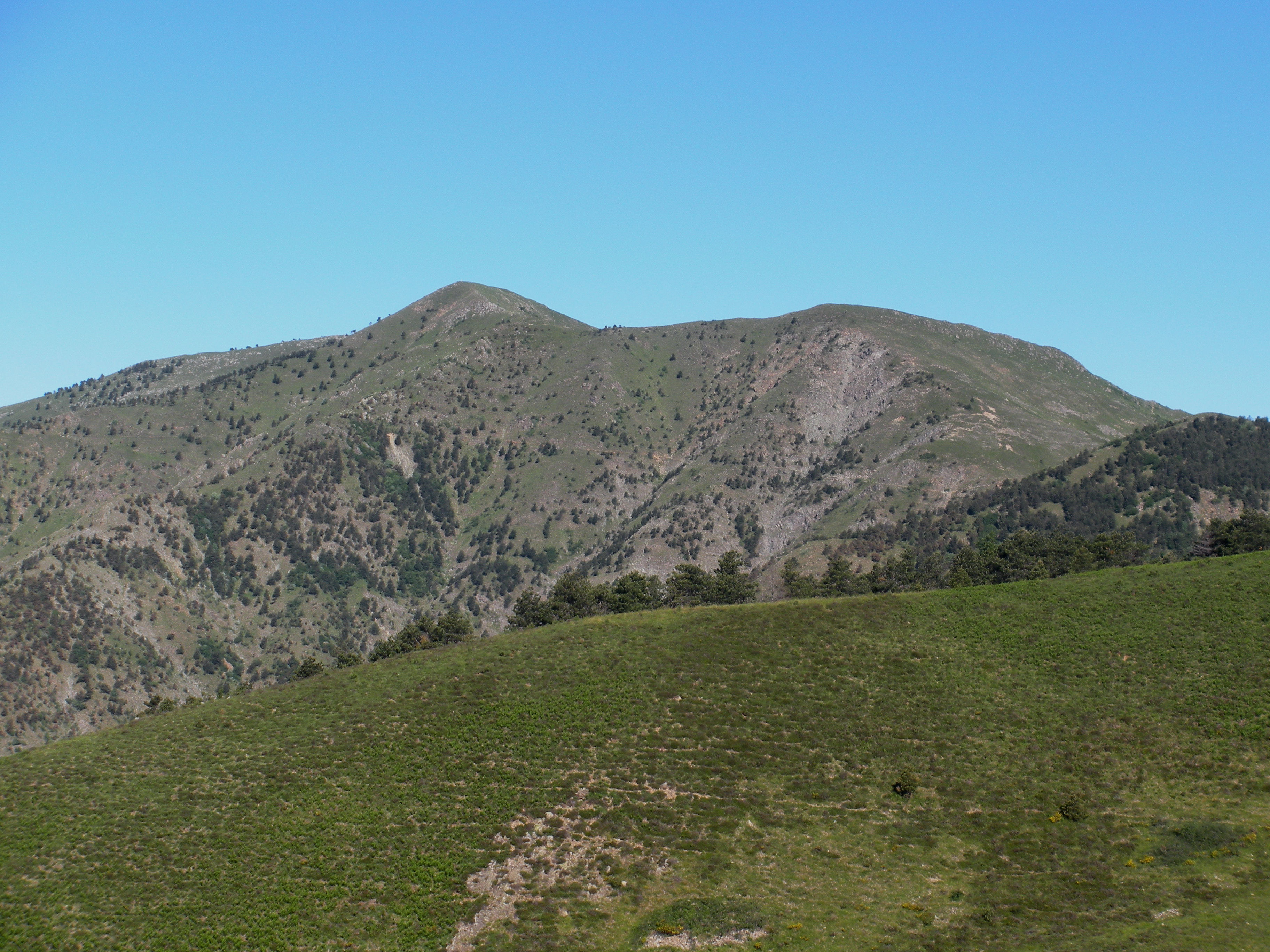 Mount Taccone (Val Polcevera, Genoa, Italy), from the surrounding of Bocchetta Pass